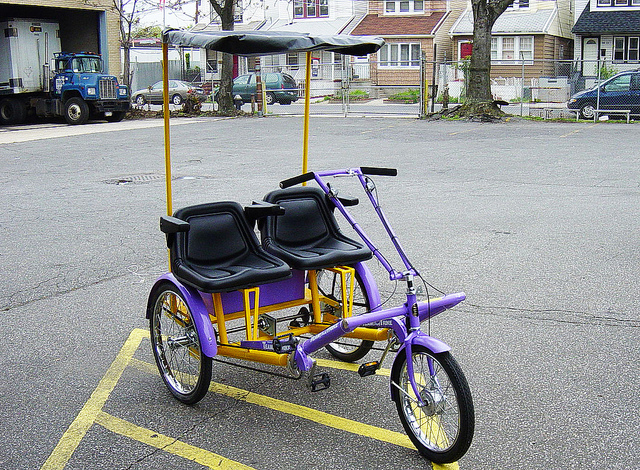 Worksman Team Dual Trike